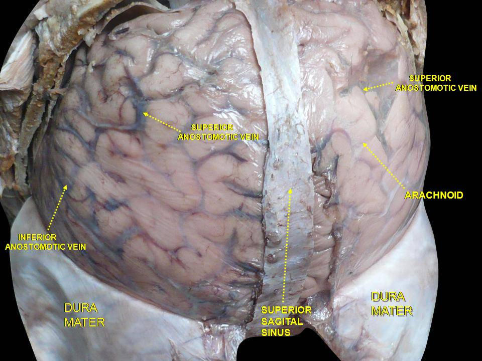 Anatomical dissections